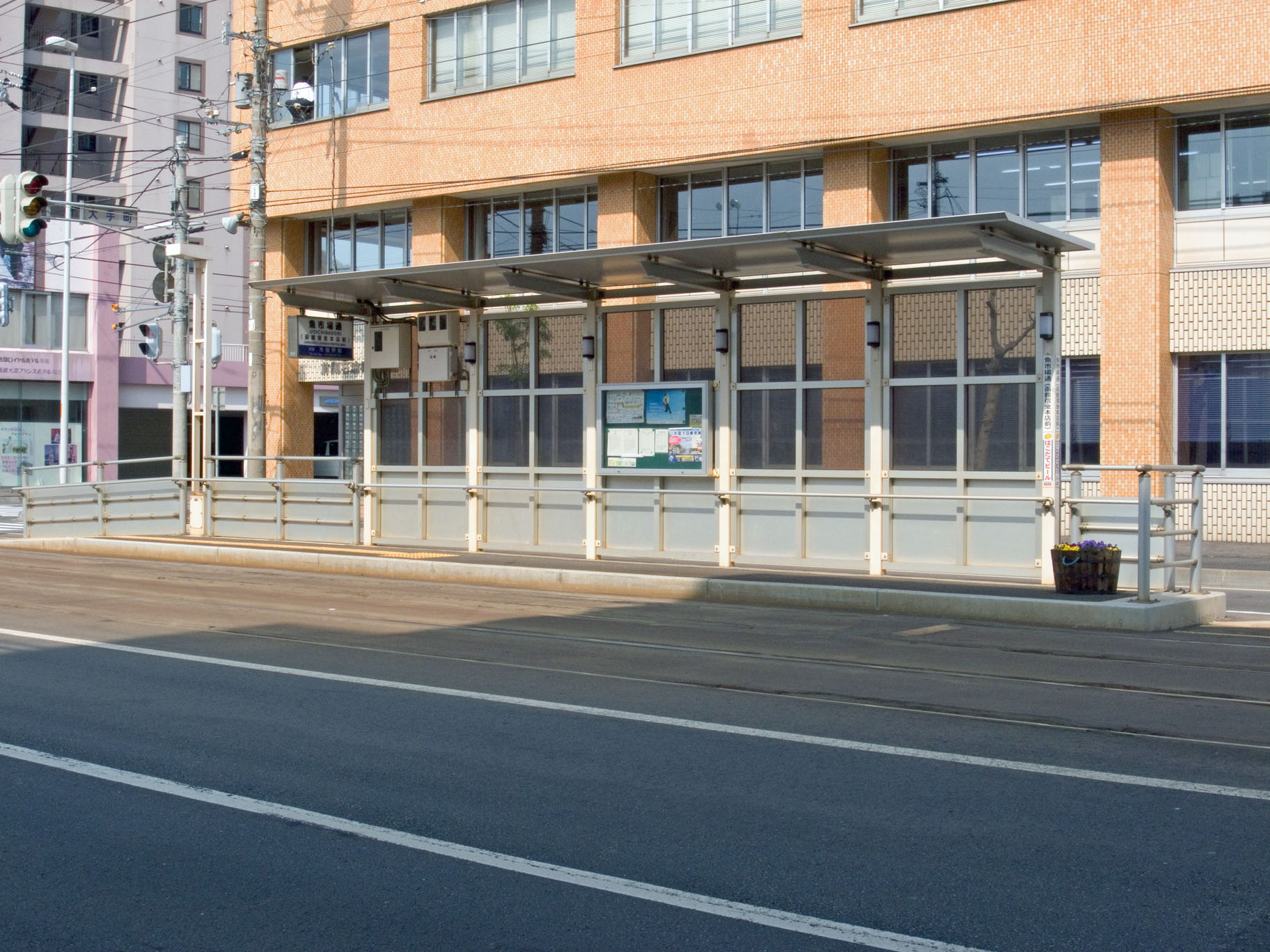 Uo-Ichiba Dori station in Hakodate tram, Hokkaido, Japan